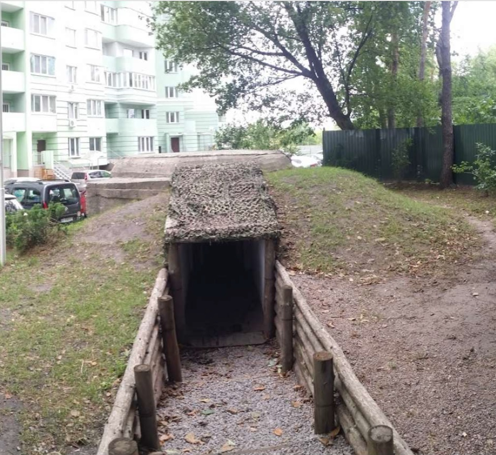 Pillbox 420, Kiev Fortified Region. Back view.